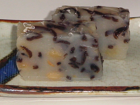 Kenchin of Nakatsu, Oita, Japan